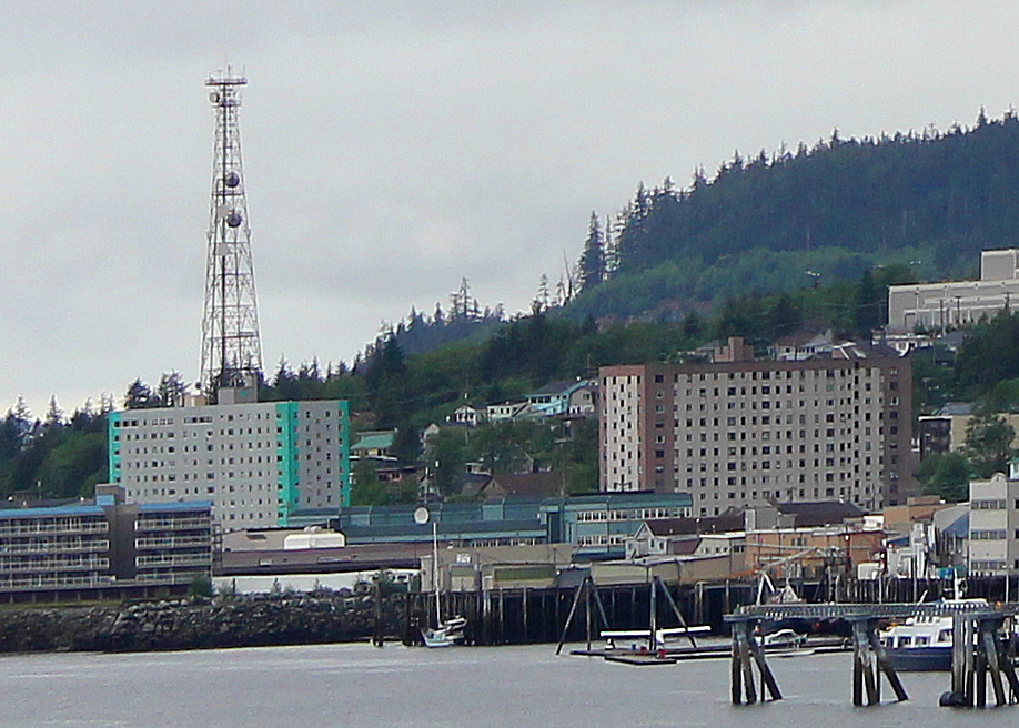 Twin Towers in Ketchikan, Alaska, United States.